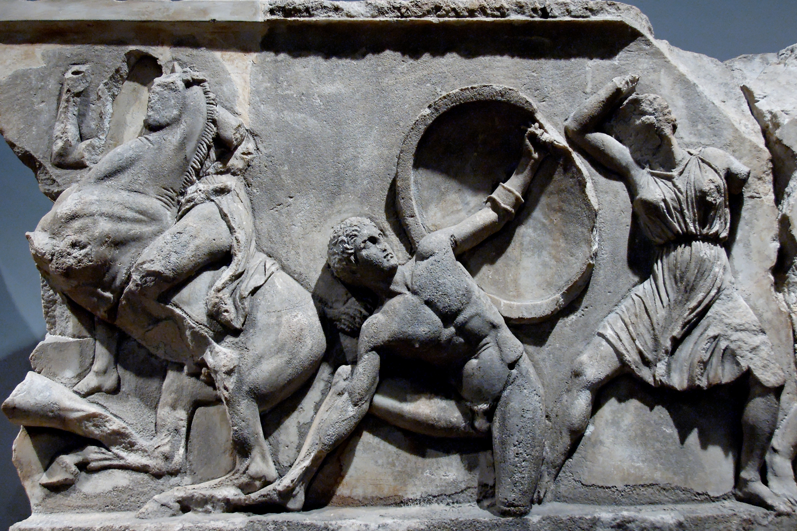 Amazonomachy. Block from the frieze running around the top of the podium of the Mausoleum at Halicarnassos.